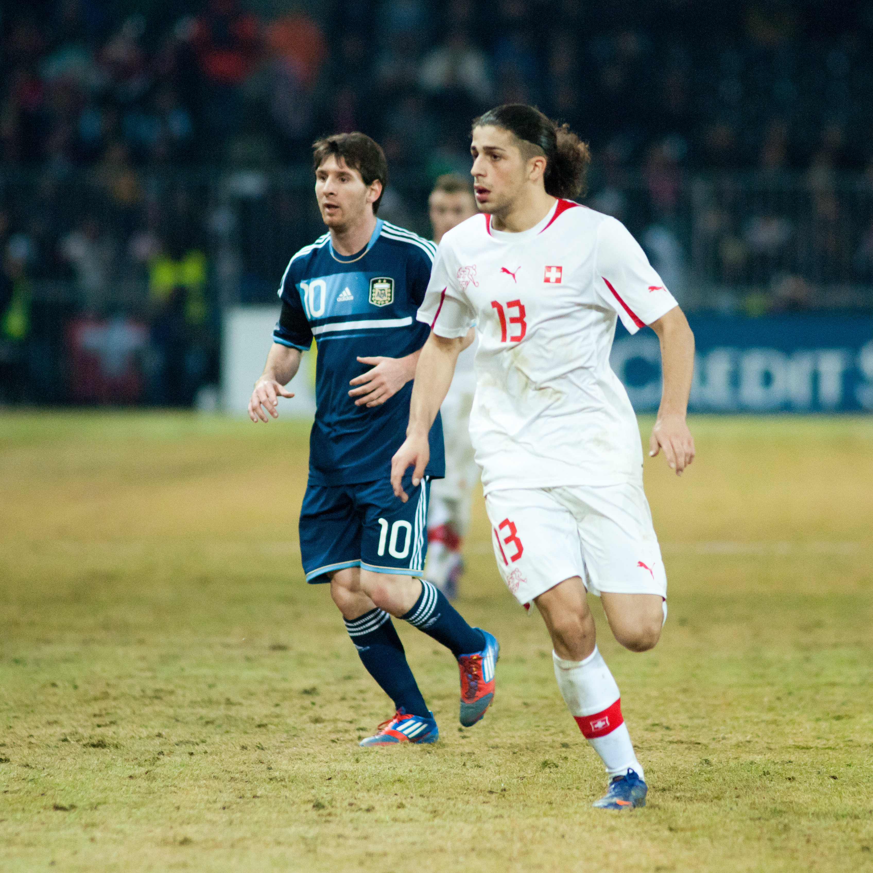 The making of this document was supported by Wikimedia CH. (Submit your project!) For all the files concerned, please see the category Supported by Wikimedia CH. Switzerland vs. Argentina, 29th February 2012